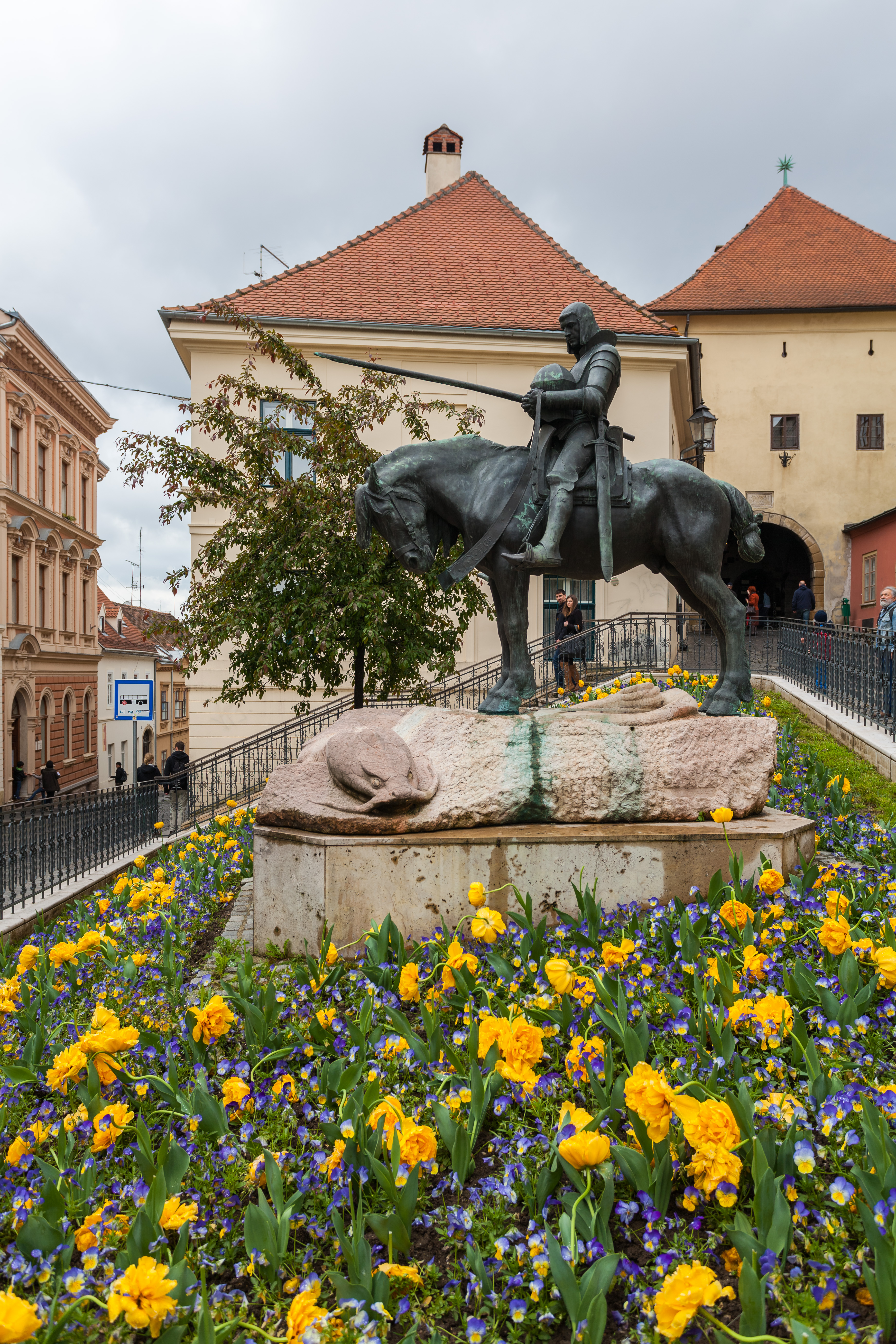 Statue of Saint George killed the Dragon, Zagreb, Croatia